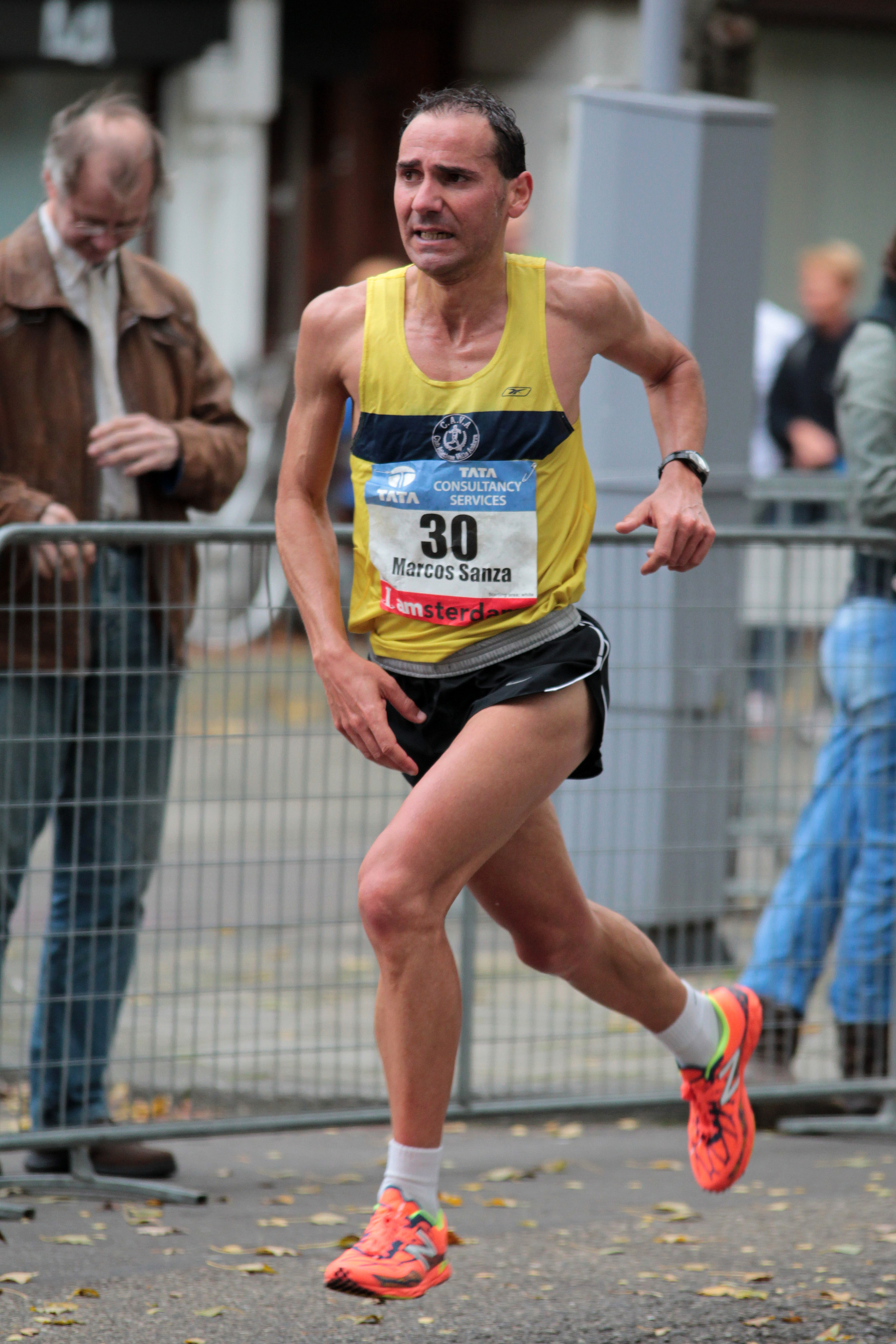 Marcos Sanza at the 2014 Amsterdam Marathon.